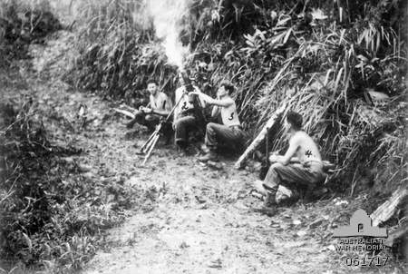 Mortars from the 2/23rd Battalion, an Australian infantry unit, fire upon Japanese positions along the Wareo-Bonga track, 10 December 1943. Other information The copyright holder of this image, the Australian War Memorial, has stated explicitly that it is "Copyright expired - public domain". The image would have entered the public domain in Australia in 1993, and is therefore in the public domain in the US, having been PD in its source country prior to 1 January 1996.